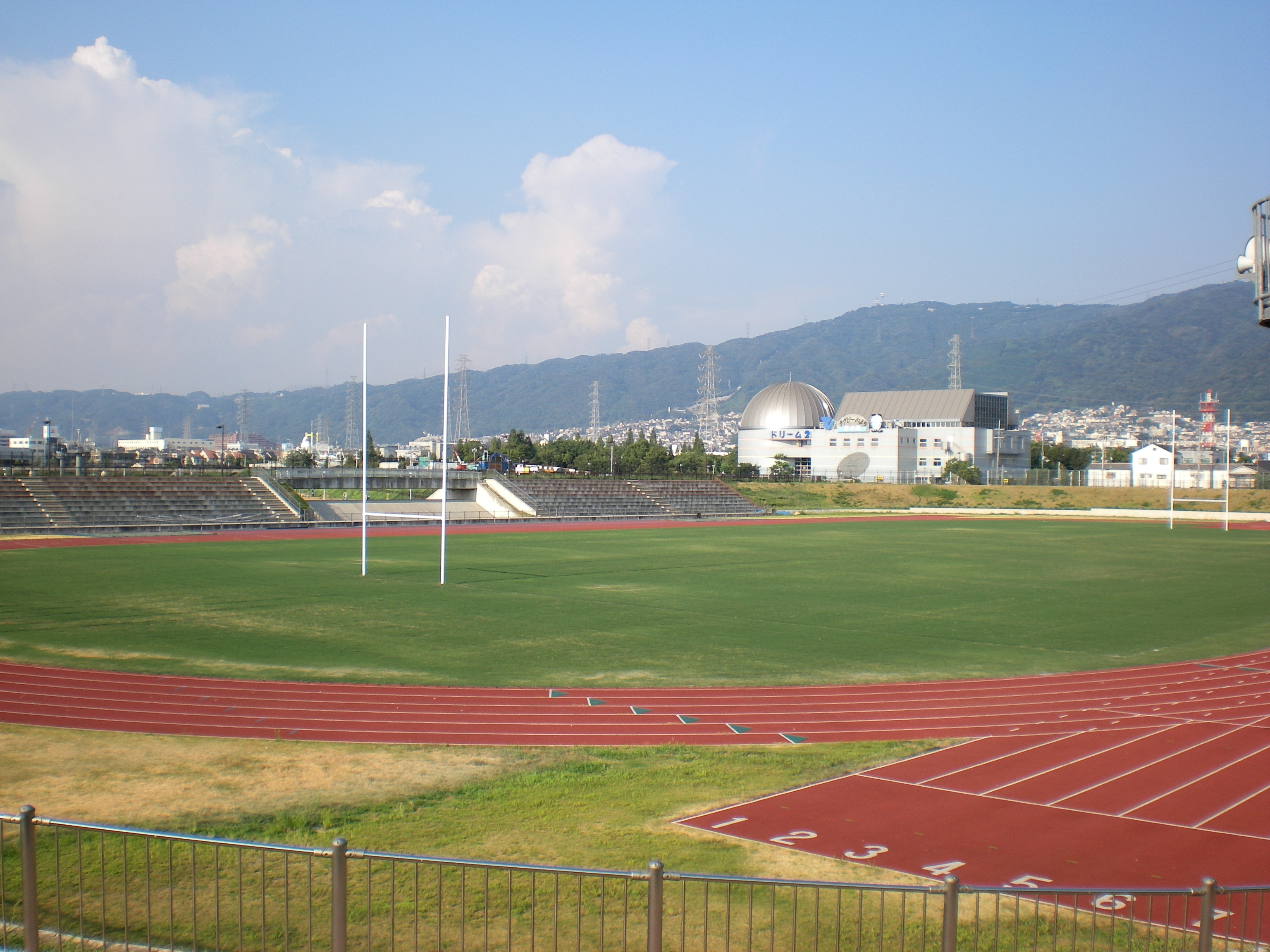 Kintetsu Hanazono Rugby Stadium 3rd ground